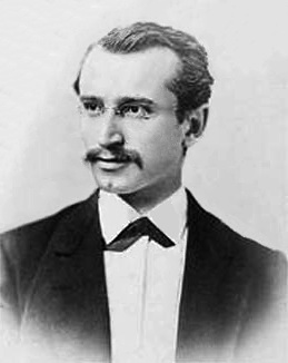 Alexander Wilhelm von Brill (1842 – 1935)